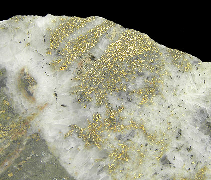 Gold (Var.: Electrum), Quartz, Sphalerite Locality: Idarado Mine, Telluride, Ouray District (Uncompahgre District), San Miguel County, Colorado, USA (Locality at ) Size: 9.0 x 8.8 x 0.5 cm A fantastic and historic slabbed specimen of Gold (var "Electrum") from the famous Idarado mine (650 Level, Tomboy Vein). The Gold has a lustrous, bright, metallic appearance, and stands out beautifully against the snow-white Quartz and black Sphalerite matrix. It was collected by Andy Sutyak of Ouray, Colorado in 1927. The piece later went to Clancy Fleetwood (Brian Kosnar's great-grandfather), and in 1984 became part of the famous Colorado mineral collection of Richard Kosnar, whose hand-painted catalogue number (G1084Tb) is on the bottom of the specimen. Ex. Richard Kosnar Collection.